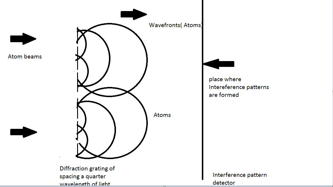 Sketch of atom interferometer